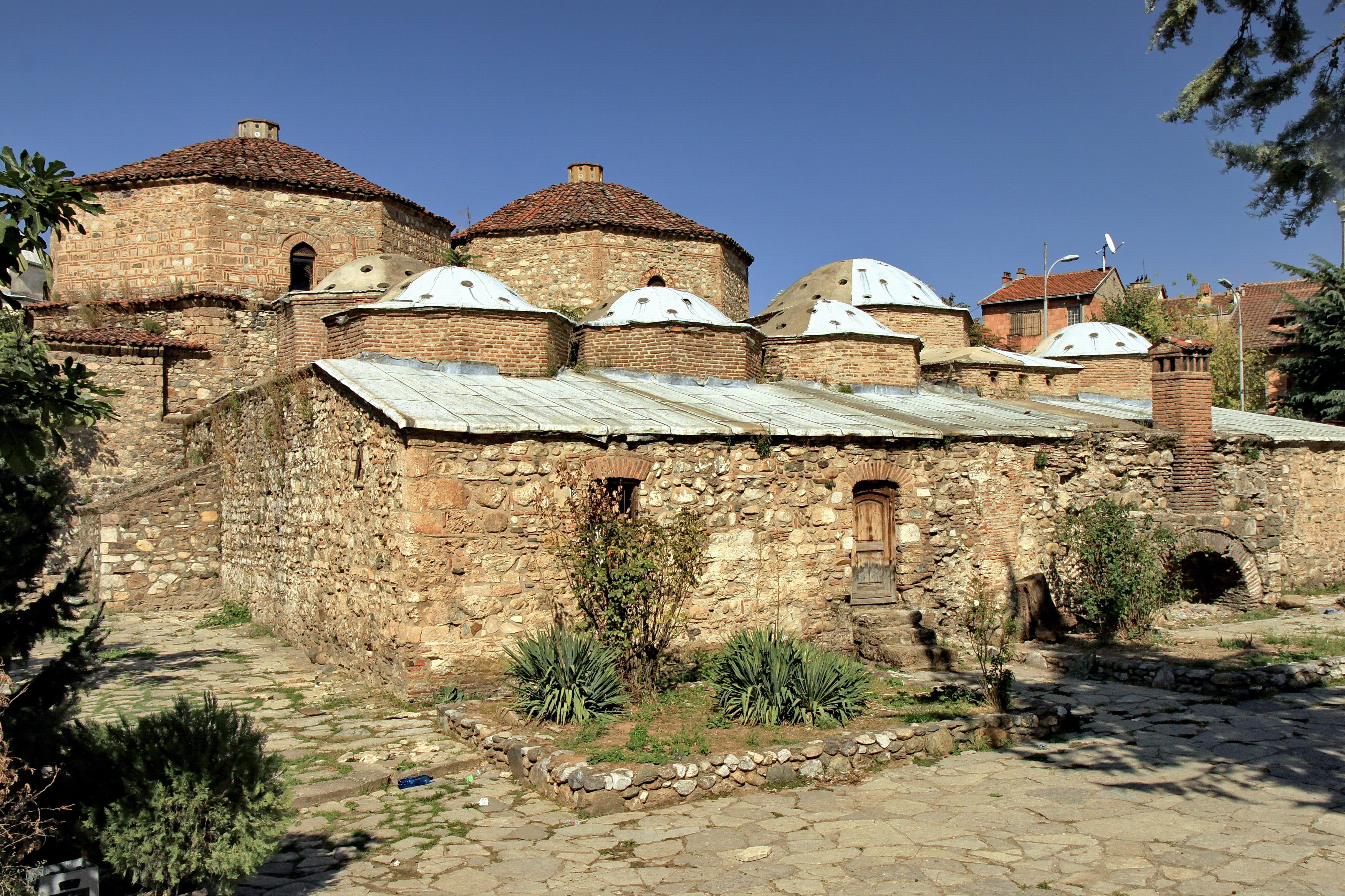 Gazi Mehmet Pasha Hammam. Prizren, Kosovo